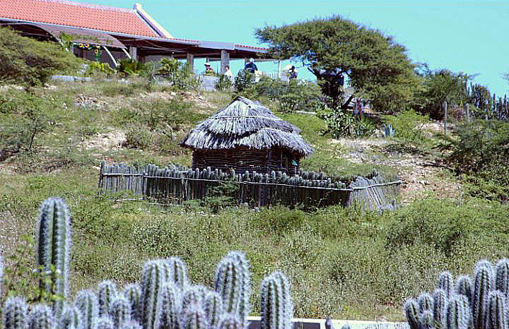 OLD STYLE OF BONAIRE HOUSES PRESERVED IN AN OUTDOOR MUSEUM ATMOSPHERE. MANY OF THE HOUSES ARE ENCLOSED BY CACTUS FENCES